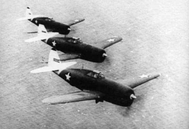 Three U.S. Army Air Forces Republic P-47D Thunderbolt fighters from the 348th Fighter Group, based at Port Moresby, New Guinea, in flight.